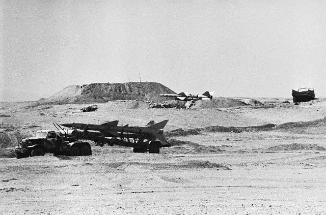 Egyptian missiles on transporters in the Sinai during the Arab-Israeli War - © Hulton-Deutsch Collection/CORBIS. From the booklet "President Nixon and the Role of Intelligence in the 1973 Arab-Israeli War." For more information, visit